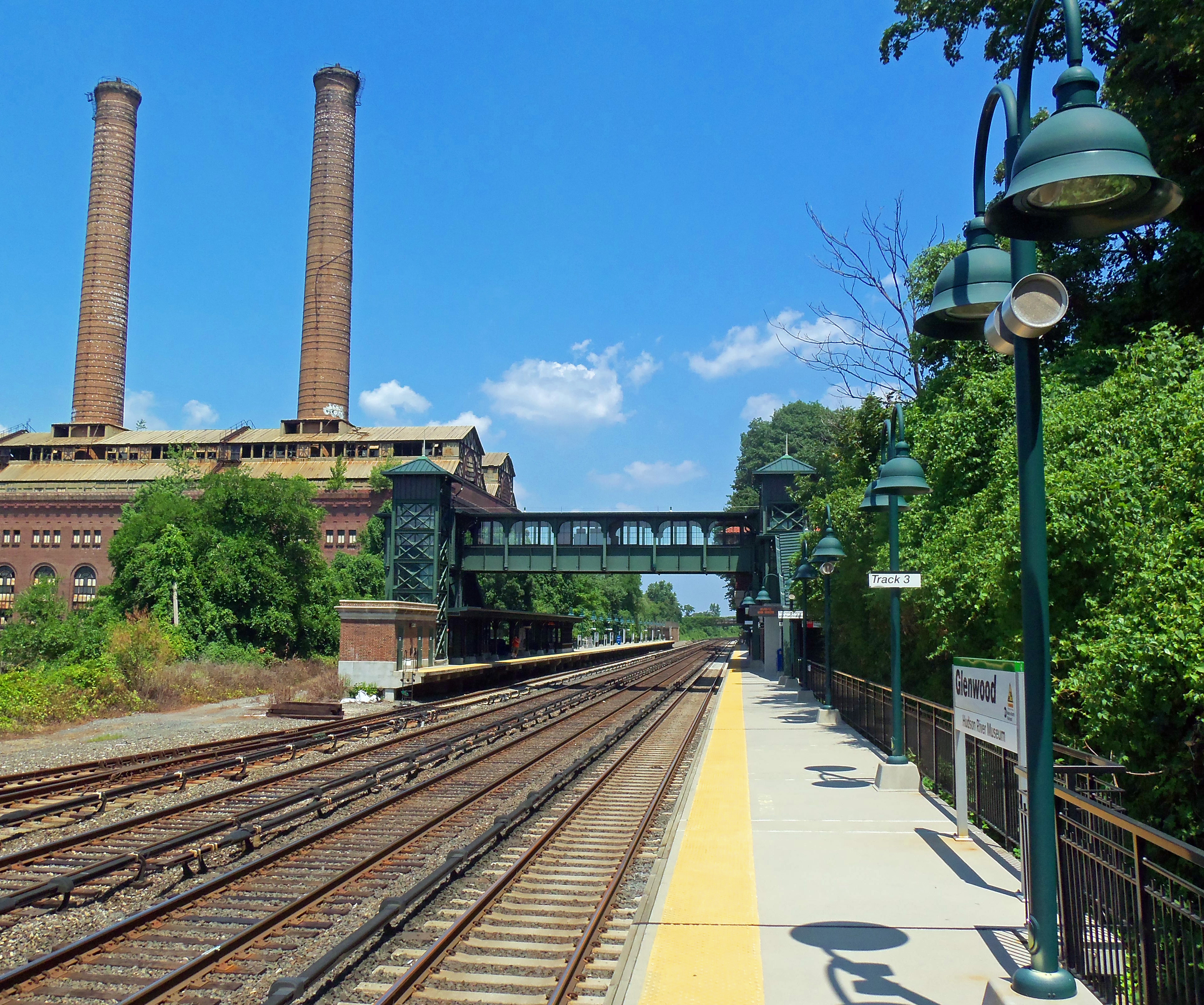 View north along tracks of the Hudson Line from the platforms of the Glenwood station in Yonkers, NY, USA. Building at left is abandoned Yonkers Power Station, built to provide power when railroad was electrified in early 20th century.